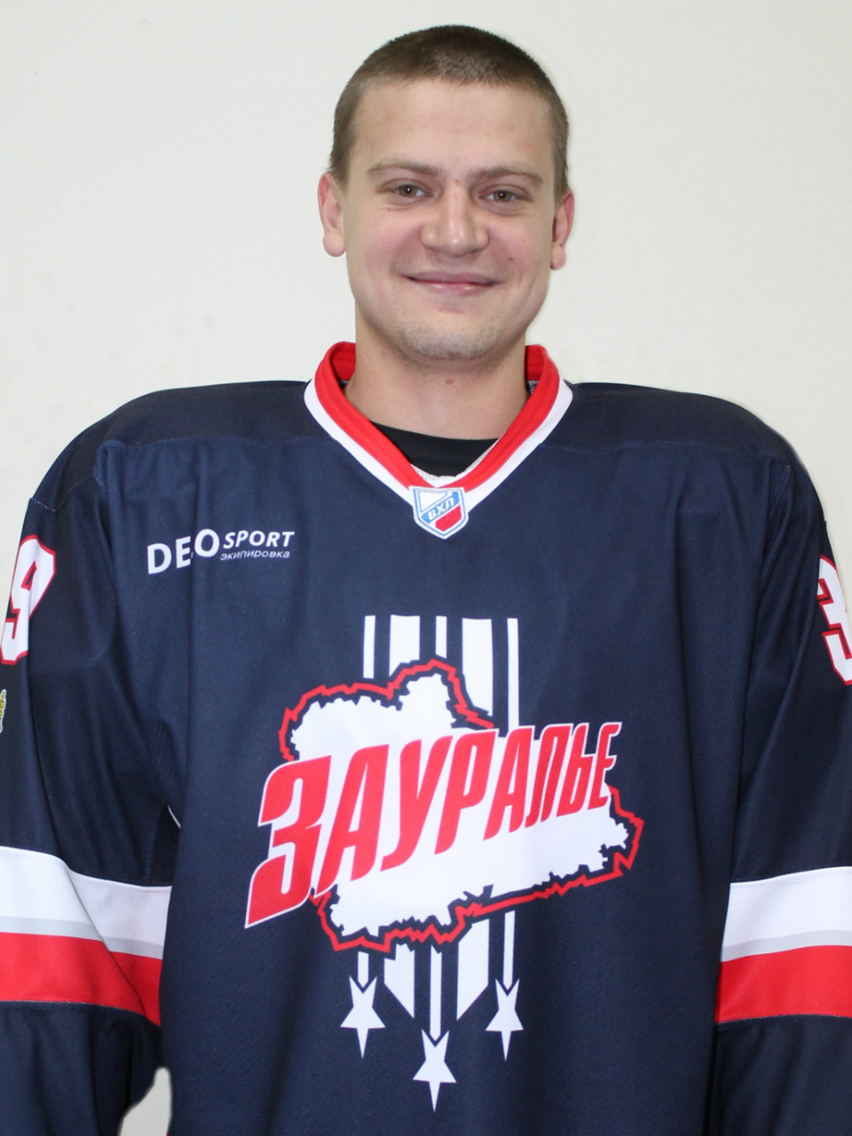 Karlin Ilya